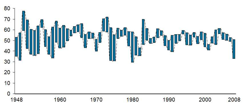 Purchasing Managers Index 1948 to 2008